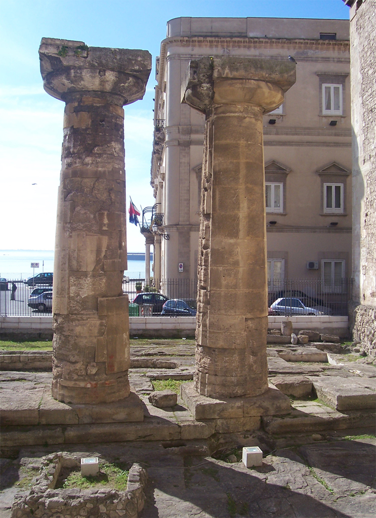 Columns of a doric temple at Taranto